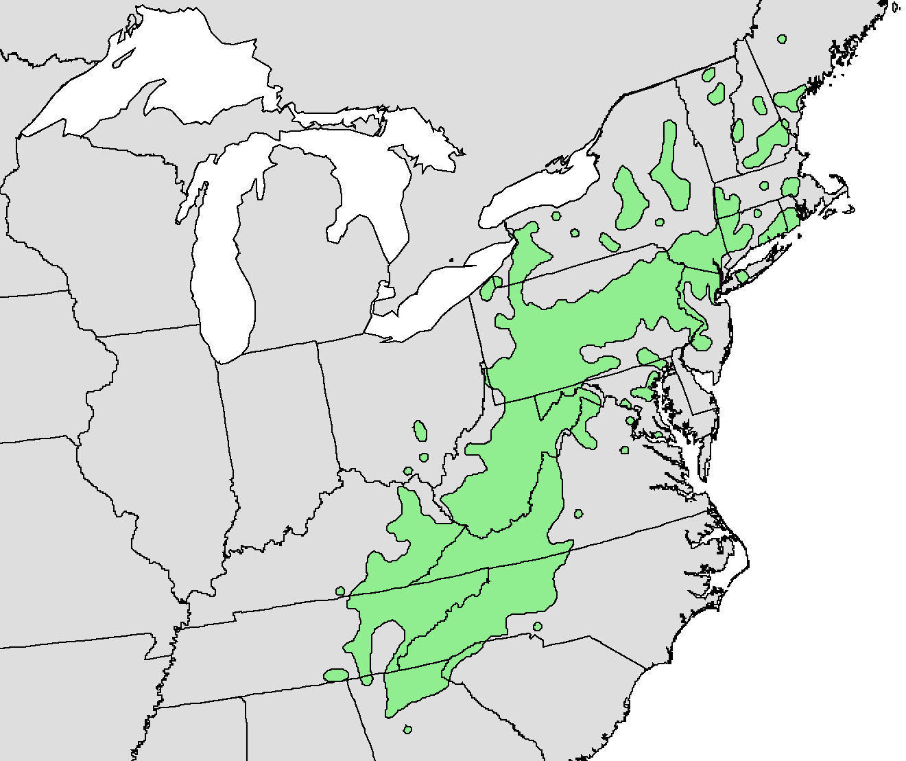 Rhododendron maximum range map